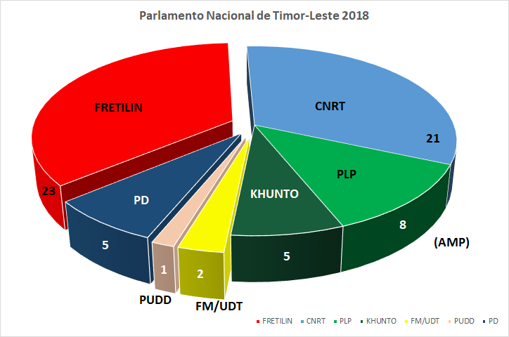 Parliament of East Timor after election in 2018